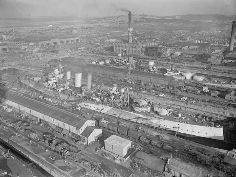 The cruisers HMS BERWICK (foreground) and HMS LIVERPOOL in drydock at Rosyth.